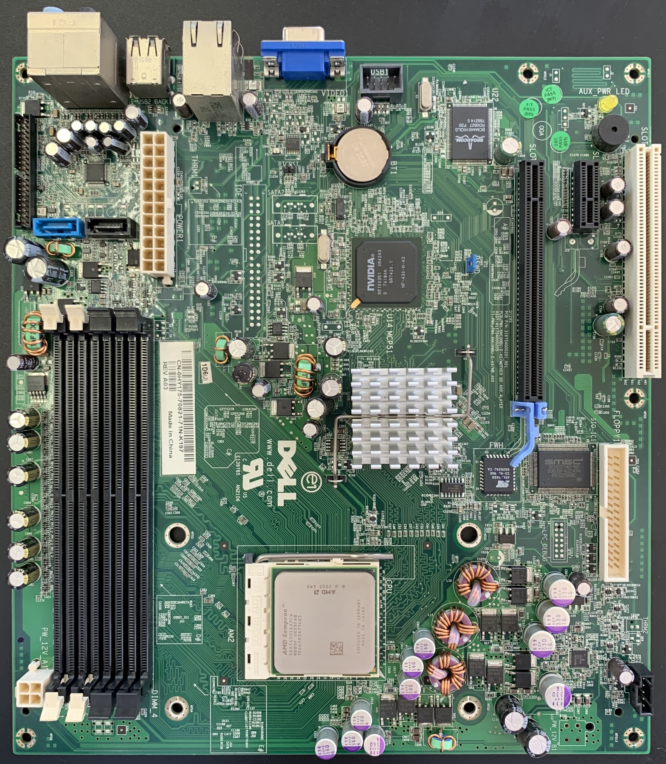 Dell Dimension C521 Motherboard